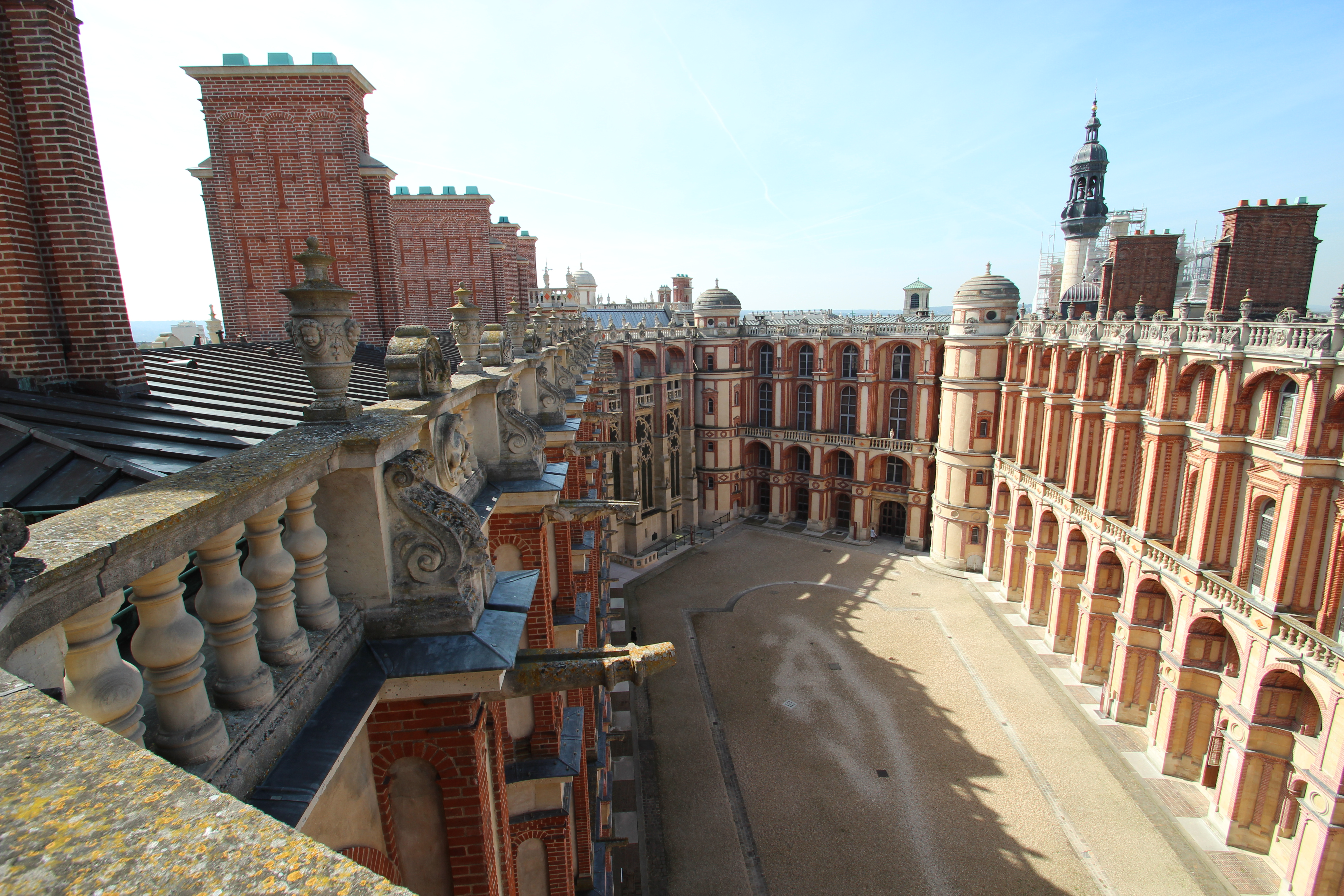 View from the roofs of the Château Vieux (old castle in french) located Charles de Gaulle place in Saint-Germain-en-Laye, France. House of the National Archaeological Museum.